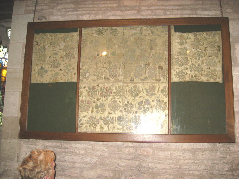 Elizabethan Altar Cloth, St Faith's Church, Bacton.